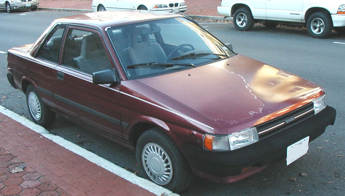 1987-1990 Toyota Tercel coupe photographed in USA.